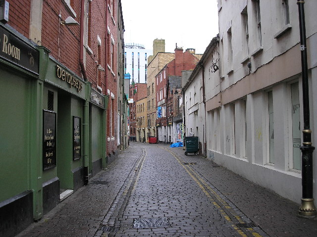 Womanby Street, Cardiff city centre. One of the oldest streets in Cardiff dating from the 12th century. Used to be known as Hummanbye street. ‘Hummanbye’ is thought to derive from the old Norse word ‘Hundemanby’ which means “the strangers’ quarter”.